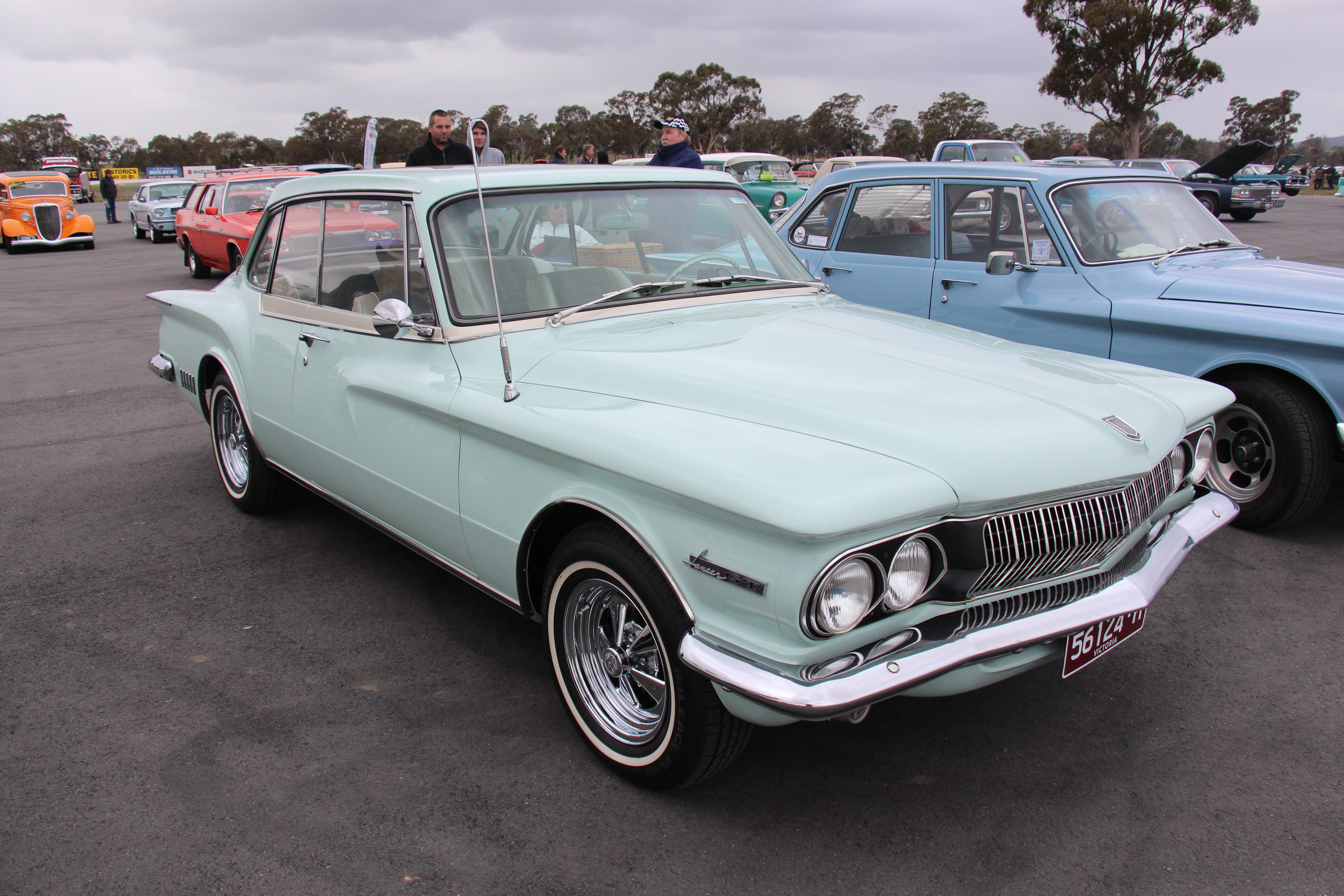 This Dodge Lancer was produced from 1961-62, it was a upmarket badge engineered version of Plymouths Valiant. The Lancer wheelbase and body shell were identical to those of the Valiant, but interior and exterior trim were fancier on the Lancer. Lancers featured round taillights and a full-width grille, instead of the Valiant's cat's-eye taillights and central grille. Models available were the base 170 and premium 770, in 2 or 4 door sedan, 4 door wagon and 2 door hardtop. In 1961, the 2 door hardtop was marketed as the 770 Sports Coupe, in 1962 it was the Lancer GT, the headlamp bezels and the grille's horizontal slats were blacked-out and GT badging. Engine; 170 or 225 cu in slant 6